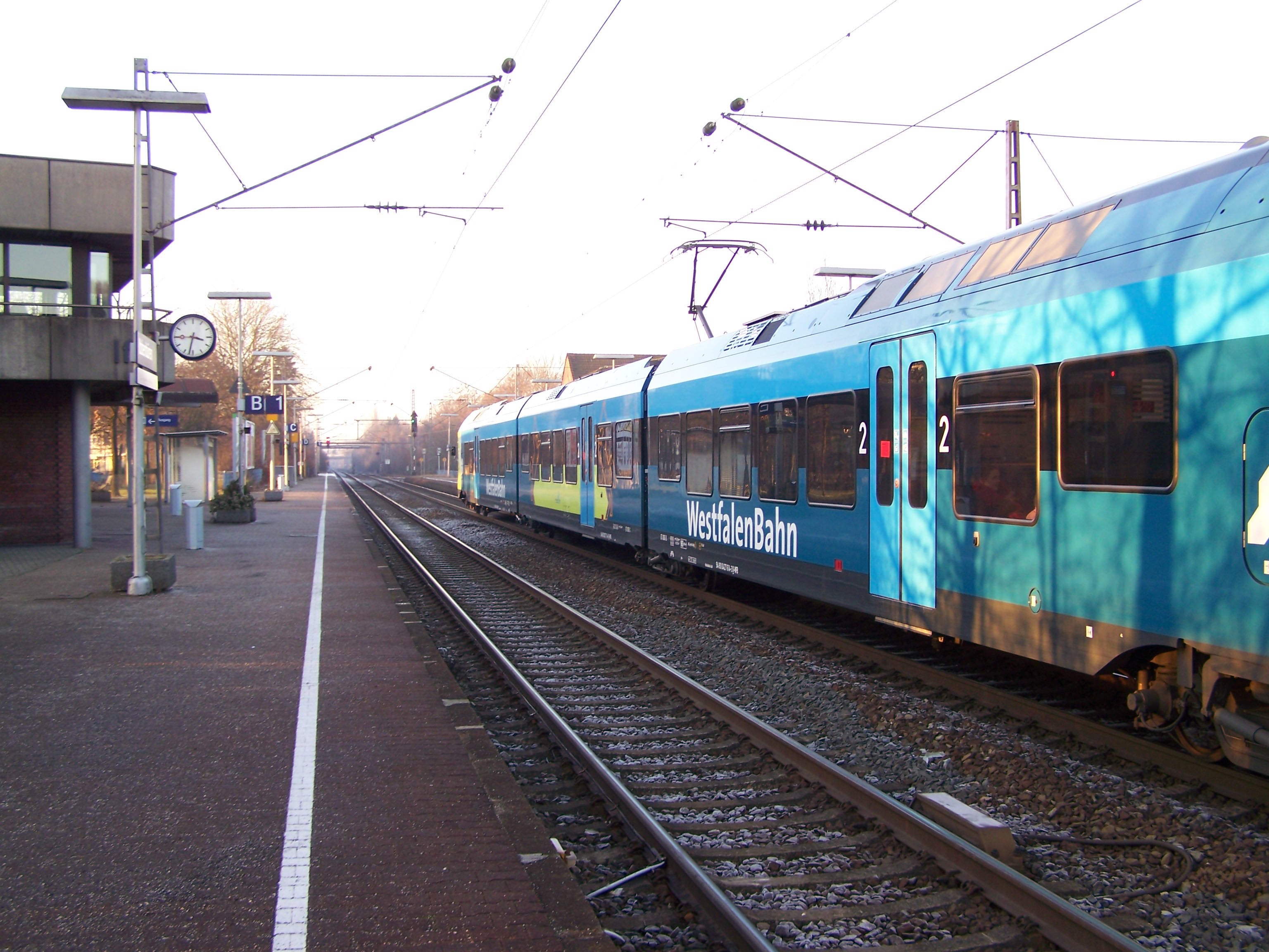 Train station Ibbenbüren, North Rhine-Westphalia, Germany